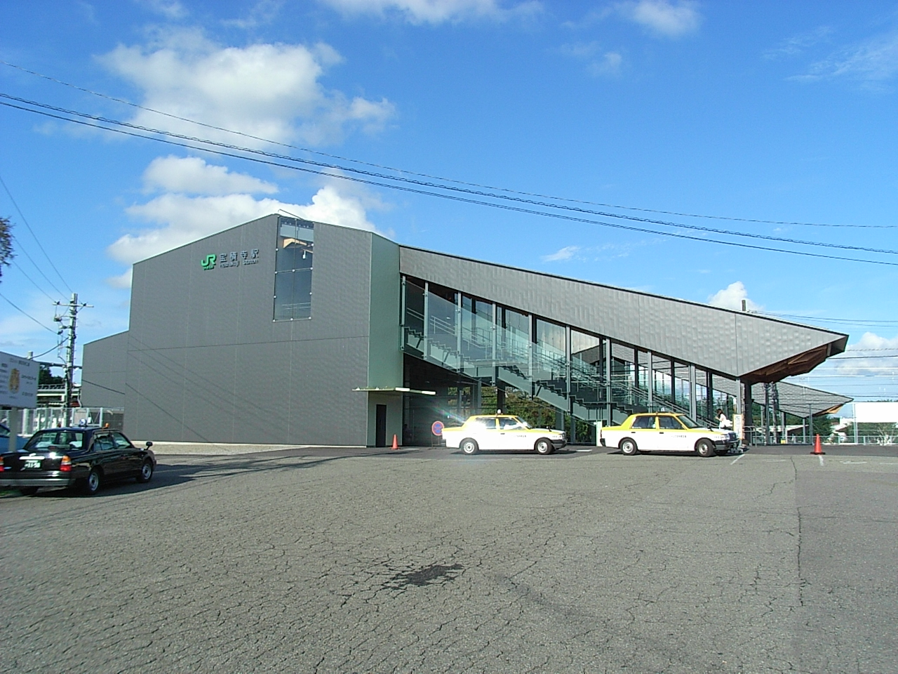 Hōshakuji Station (West Entrance) on JR Tohoku Line. (2377,Hoshakuji,Takanezawa-machi,Shioya-gun,Tochigi-ken,JAPAN)